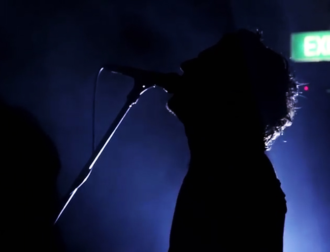 Gareth Liddiard performing with the Drones in May 2016.